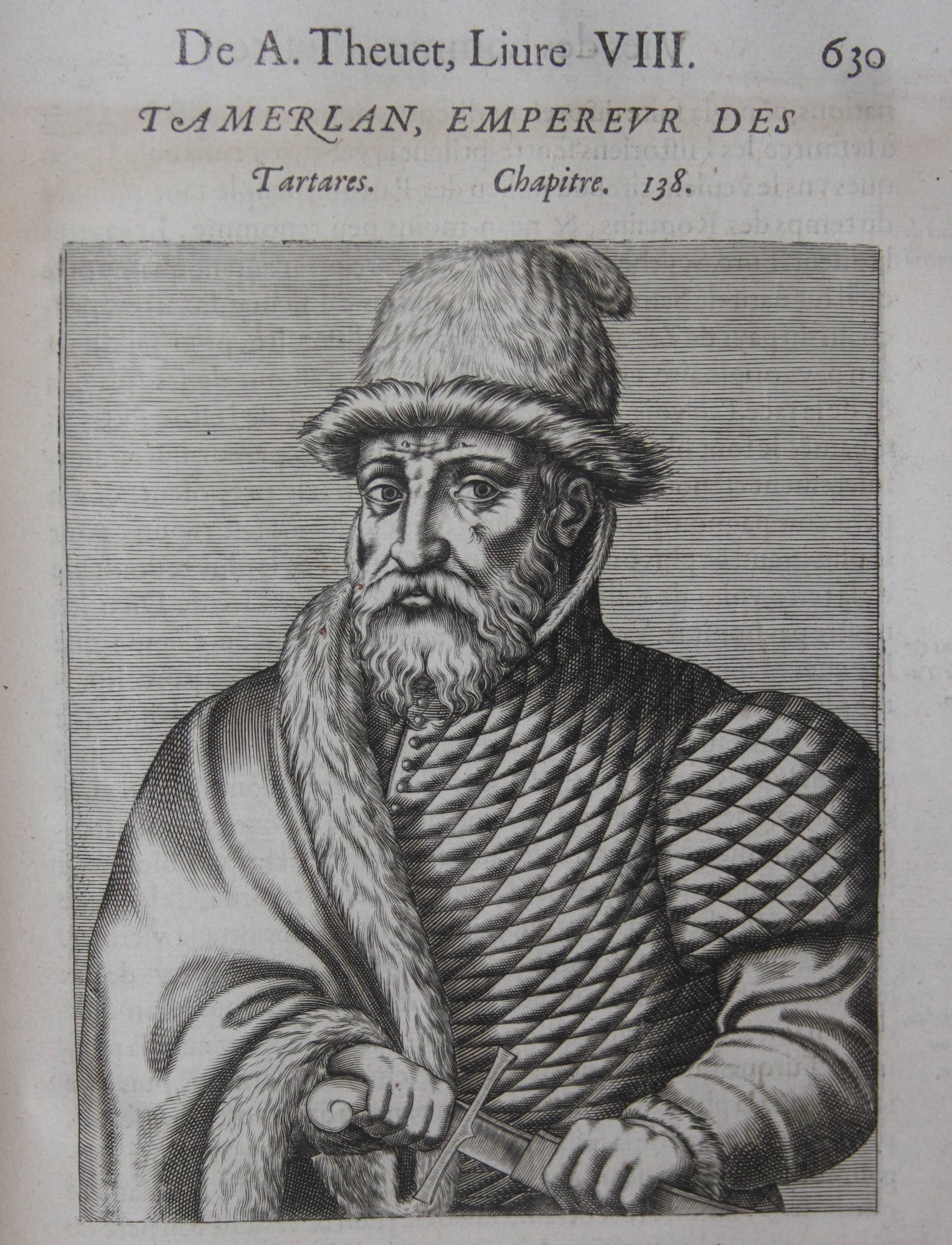 Tamerlan, Pourtraits et Vies des Hommes Illustres, André Thévet, Paris 1584